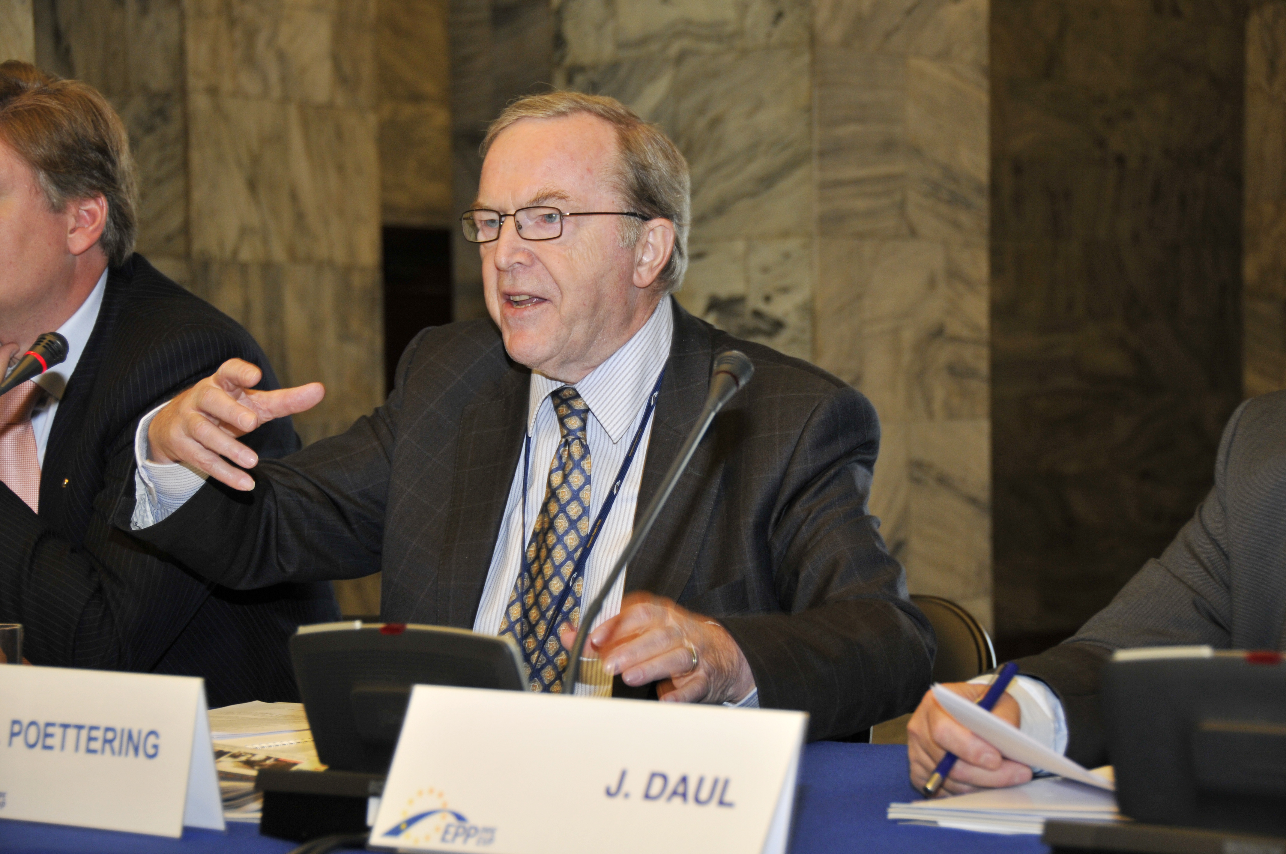 EPP Congress Warsaw